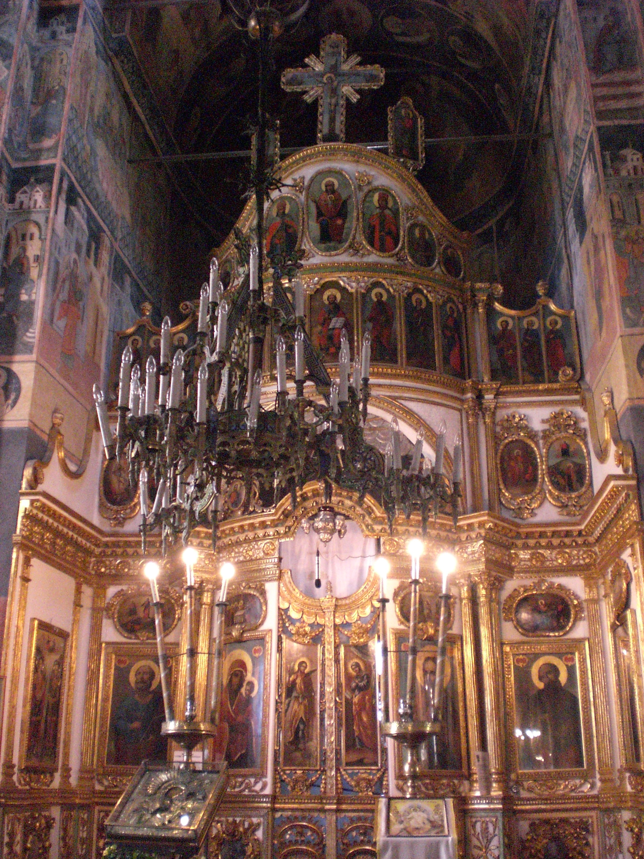 Bucharest, Kretzulescu Church, 1722